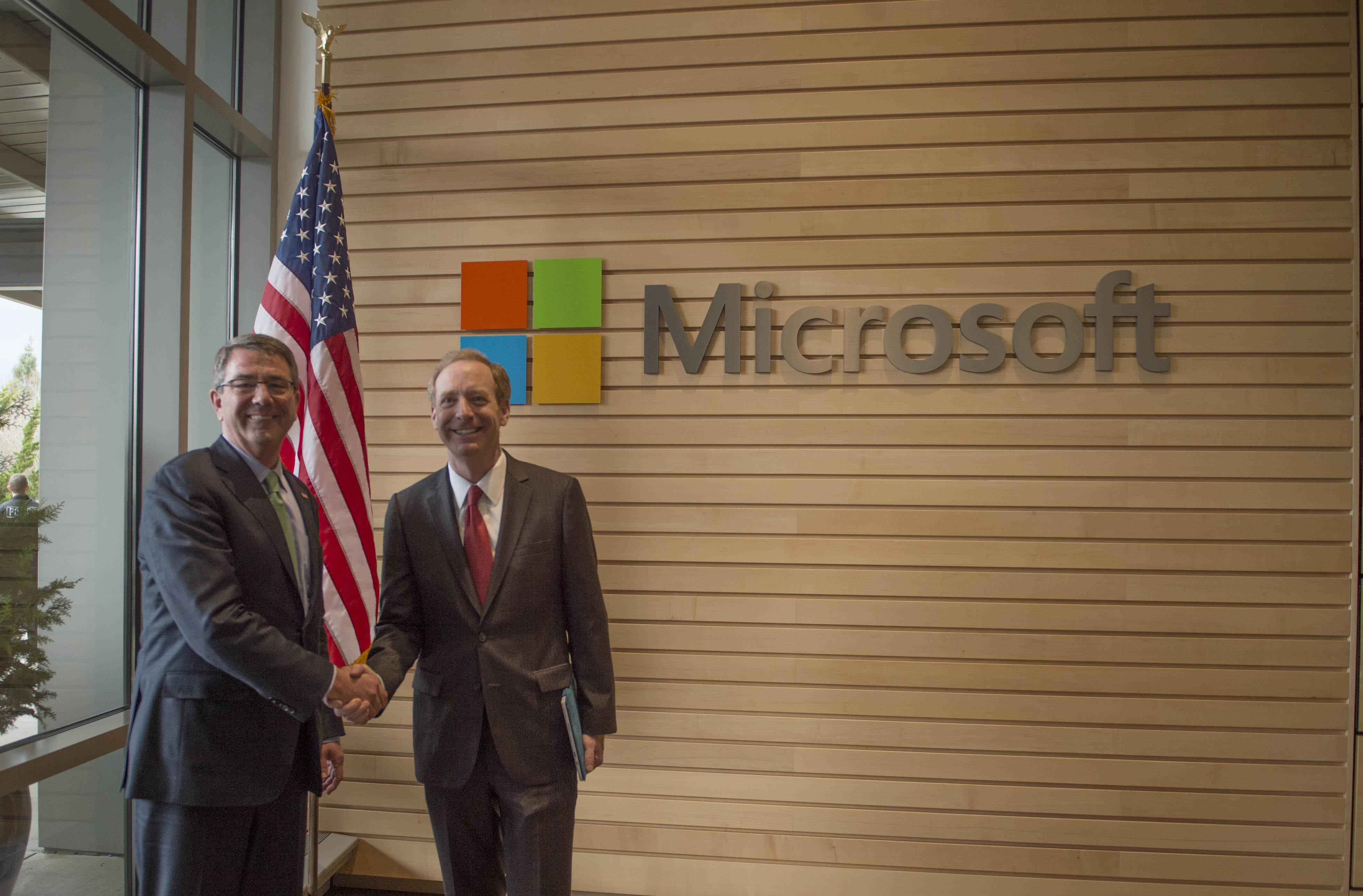 SEATTLE (March 3, 2016) Secretary of Defense Ash Carter takes a photo with Microsoft President Brad Smith in Seattle March 3, 2016. Carter is in Seattle to strengthen ties between the Department of Defense and the tech community (DoD photo by Navy Petty Officer 1st Class Tim D. Godbee)(Released)